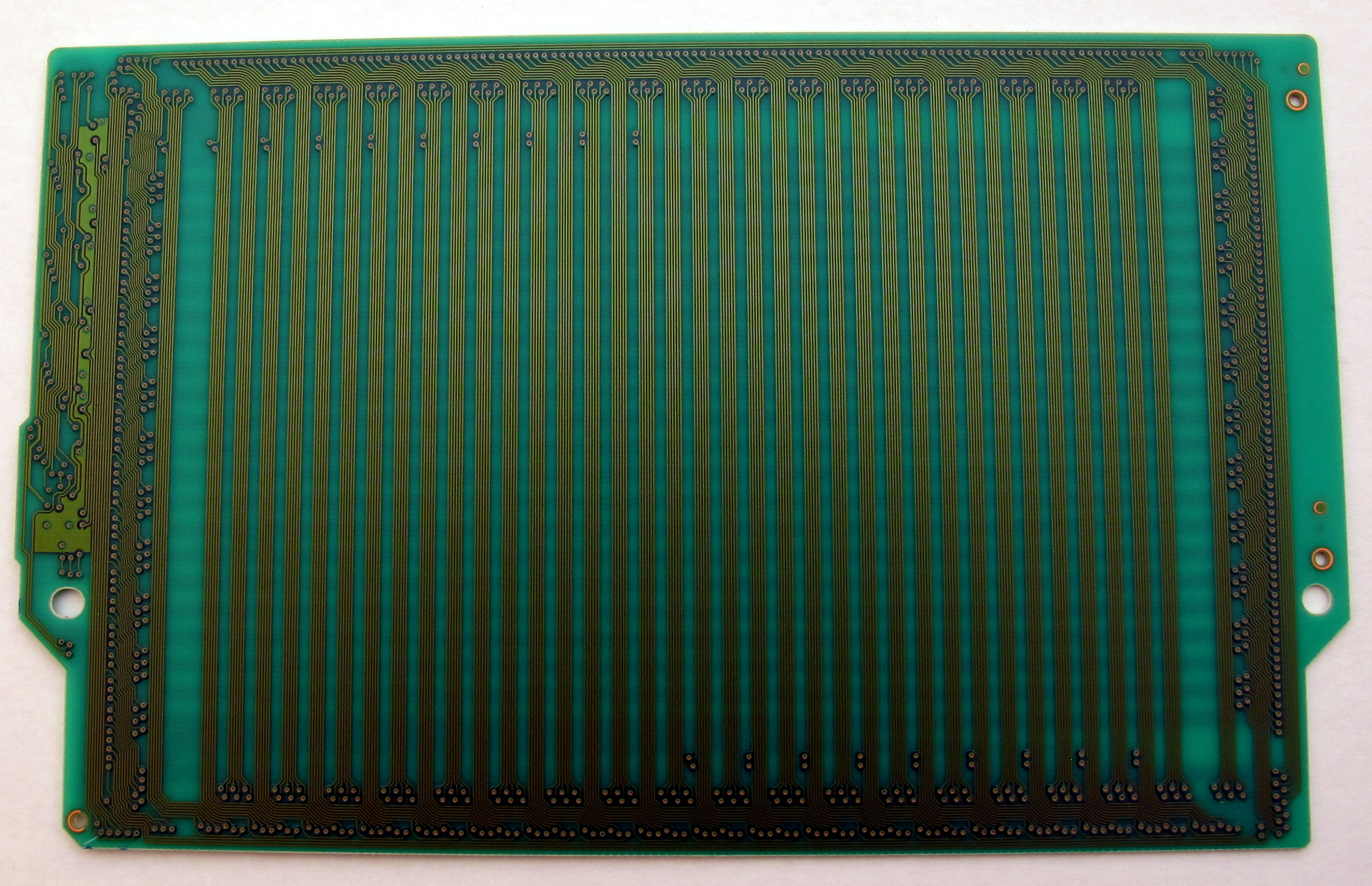 Inductive sensor board from graphics tablet Wacom CTL-480. Top PCB view. In normal operation this side is located below the tablet surface.